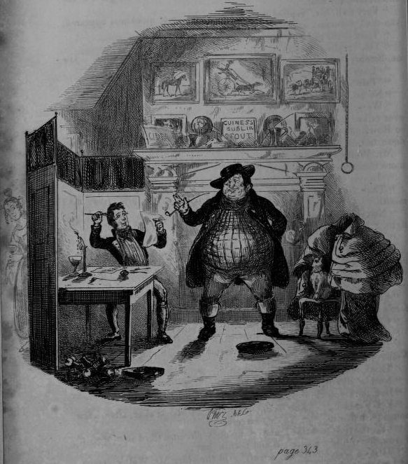 Hablot Knight Browne - The Pickwick Papers, Sam Weller with his father, Chapter XXXII